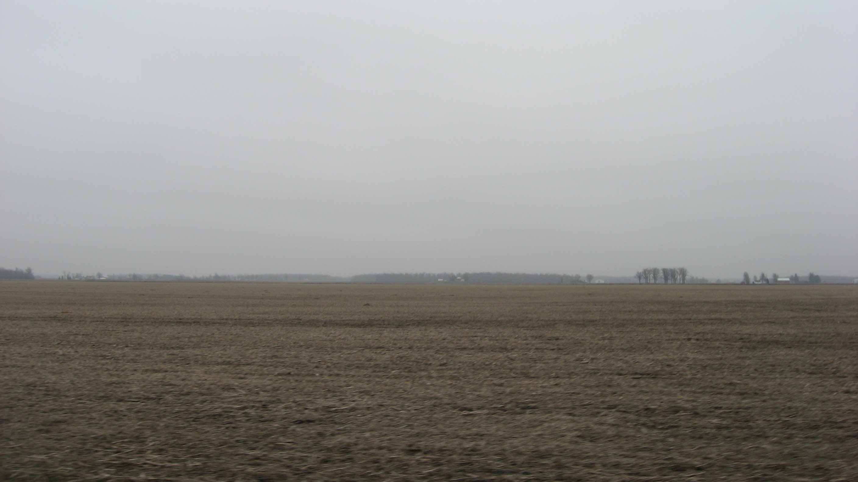 Overview of what was once the Hog Creek Marsh, seen looking south from State Route 81 east of the County Road 95 intersection in Washington Township, Hardin County, Ohio, United States.